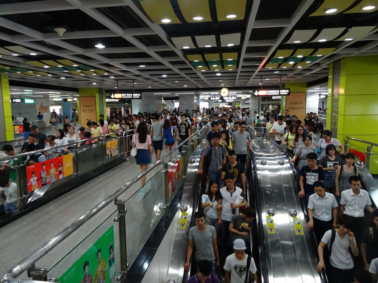 晚高峰期間呢個站3號線個邊成日好多人要出站或者換乘